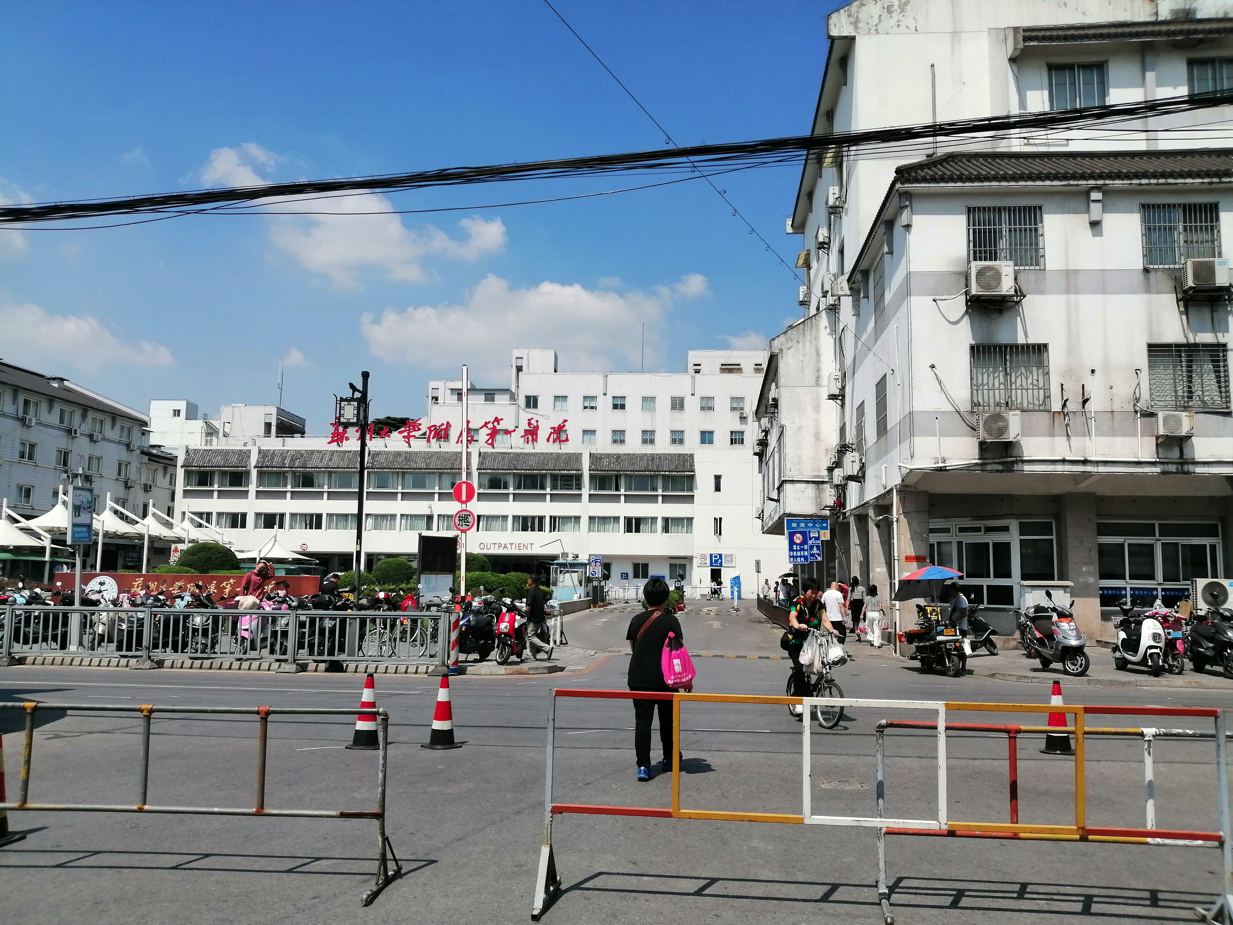 Shizi Street Campus of the First Affiliated Hospital of Soochow University 中文（中国大陆）: 苏州大学附属第一医院十梓街院区